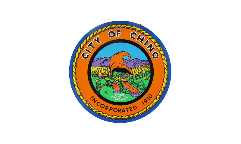 Flag of Chino, California